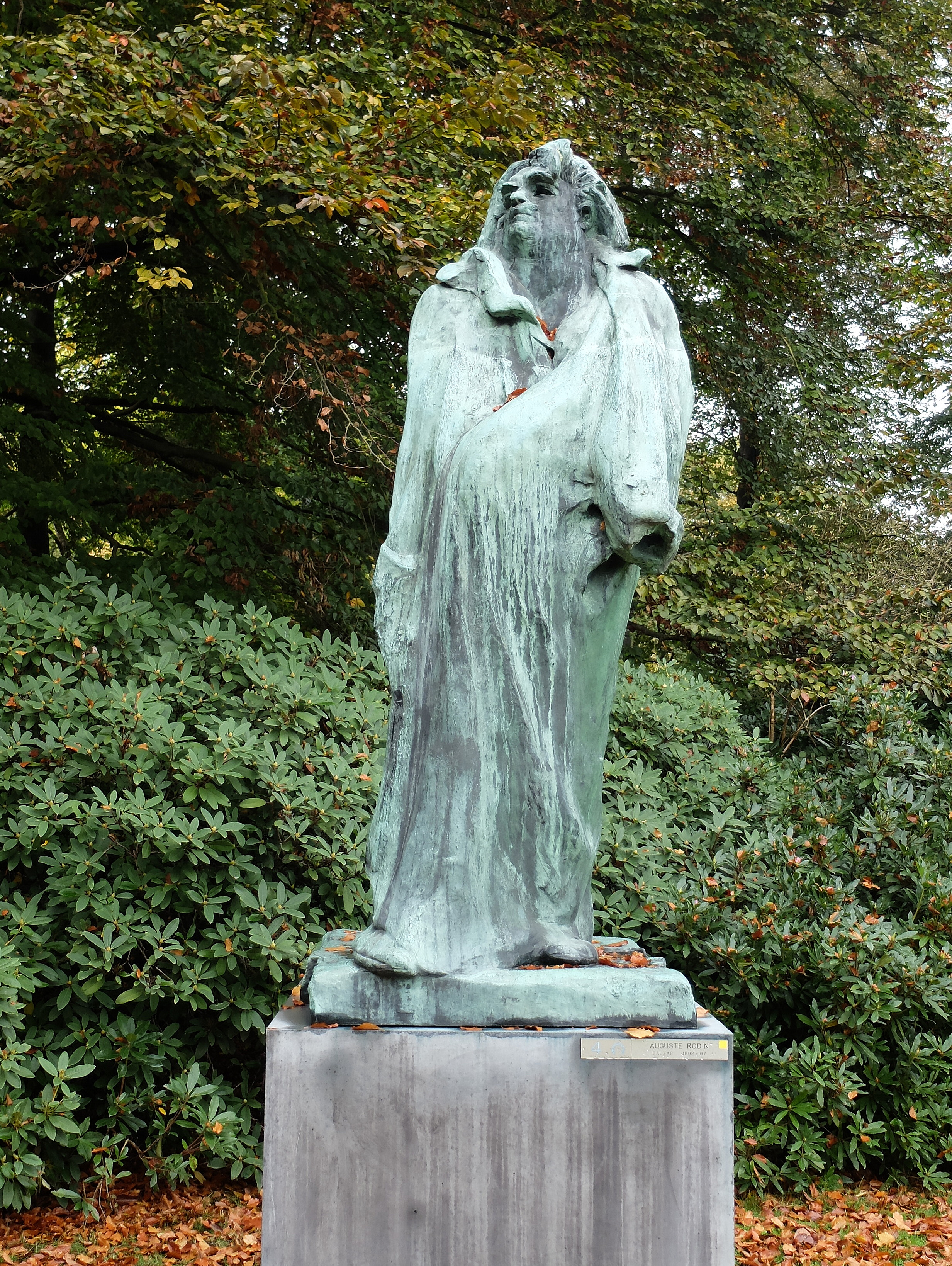 Rodin Balzac 1897